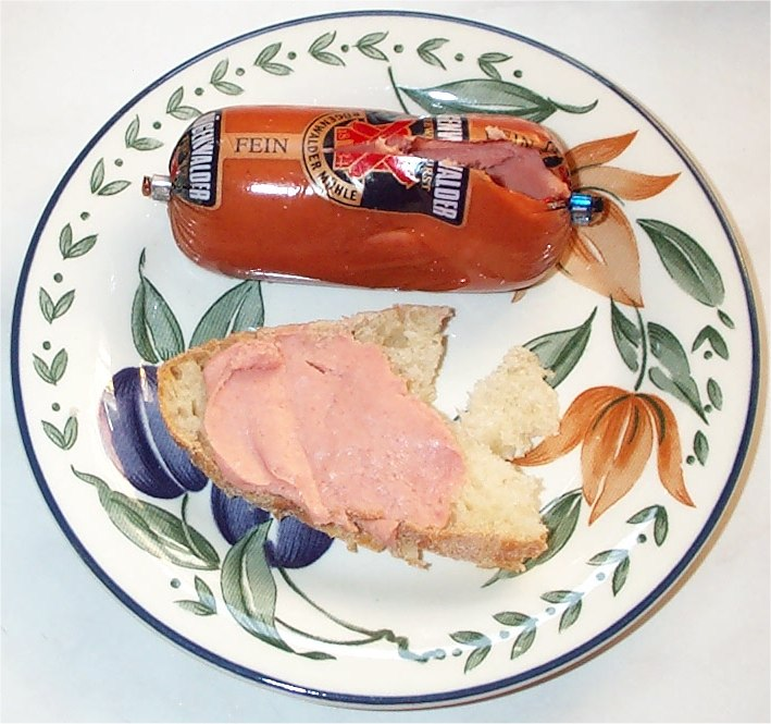 A packet of Fine Rügenwalder Teewurst and it spread on a piece of bread shortly before consumption.